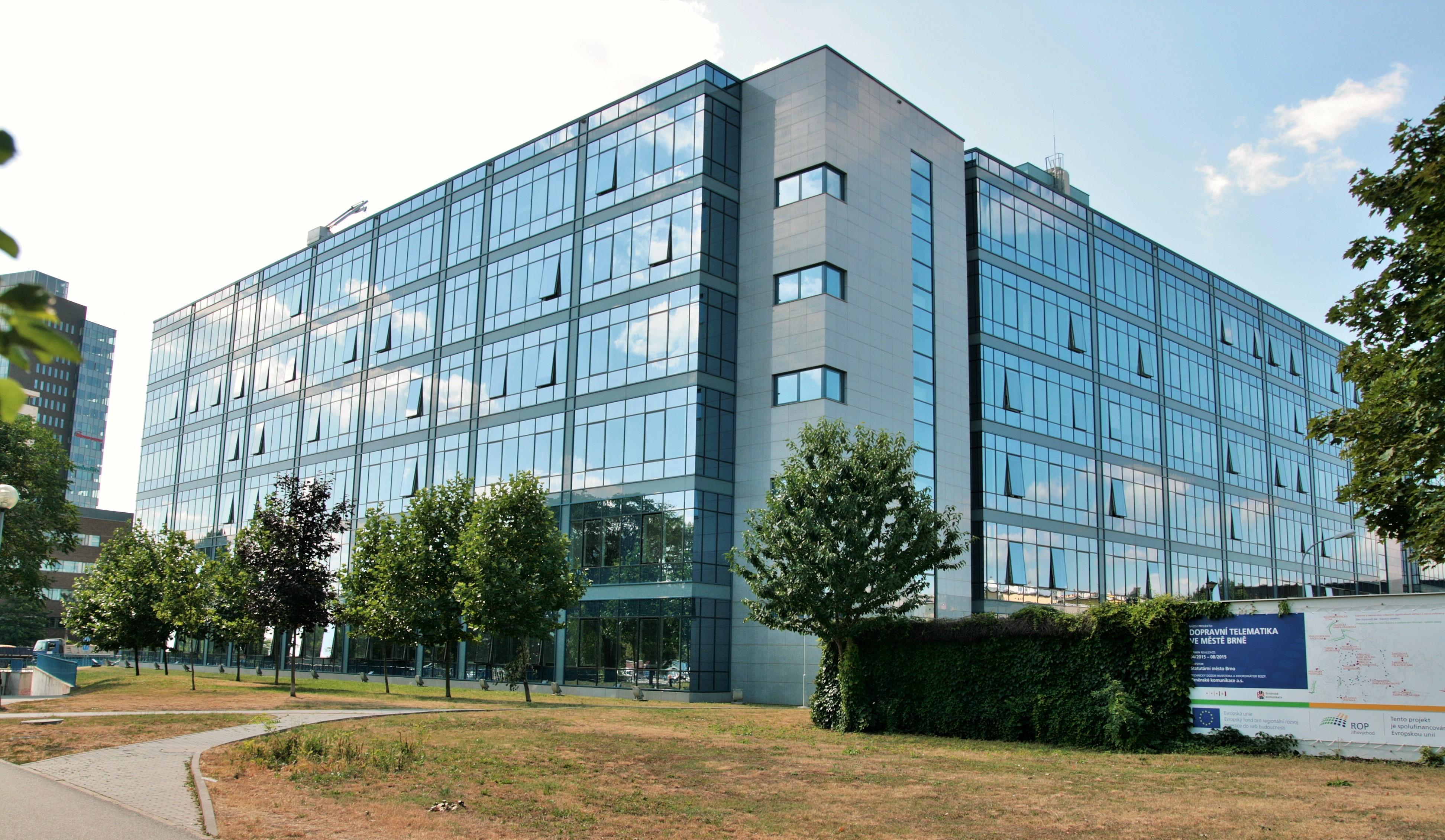 Judicial complex in Štýřice, Brno, Czech Republic.